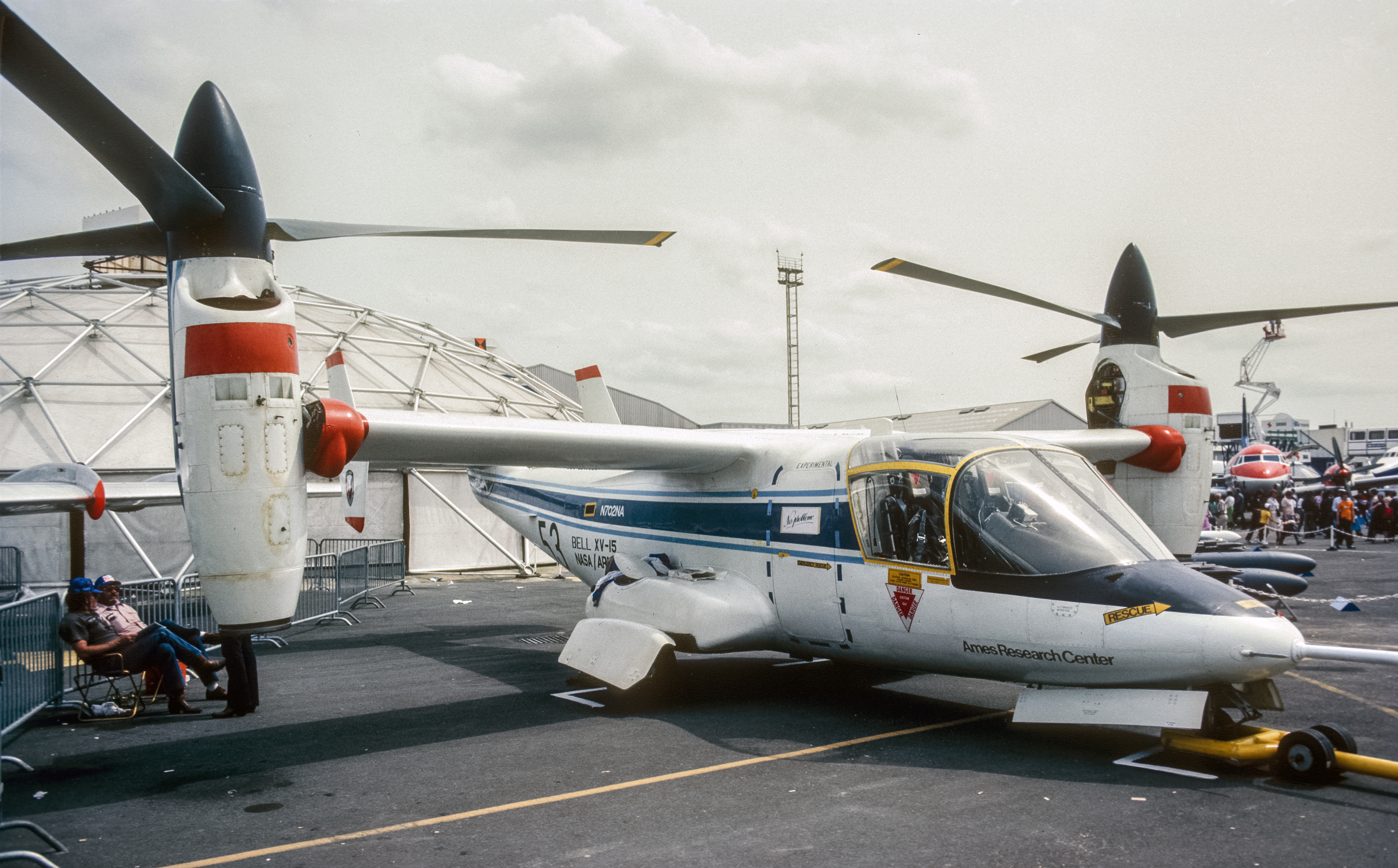 Bell XV-15 N702NA at the 1981 Paris Air Show. Scanned Kodachrome slide.